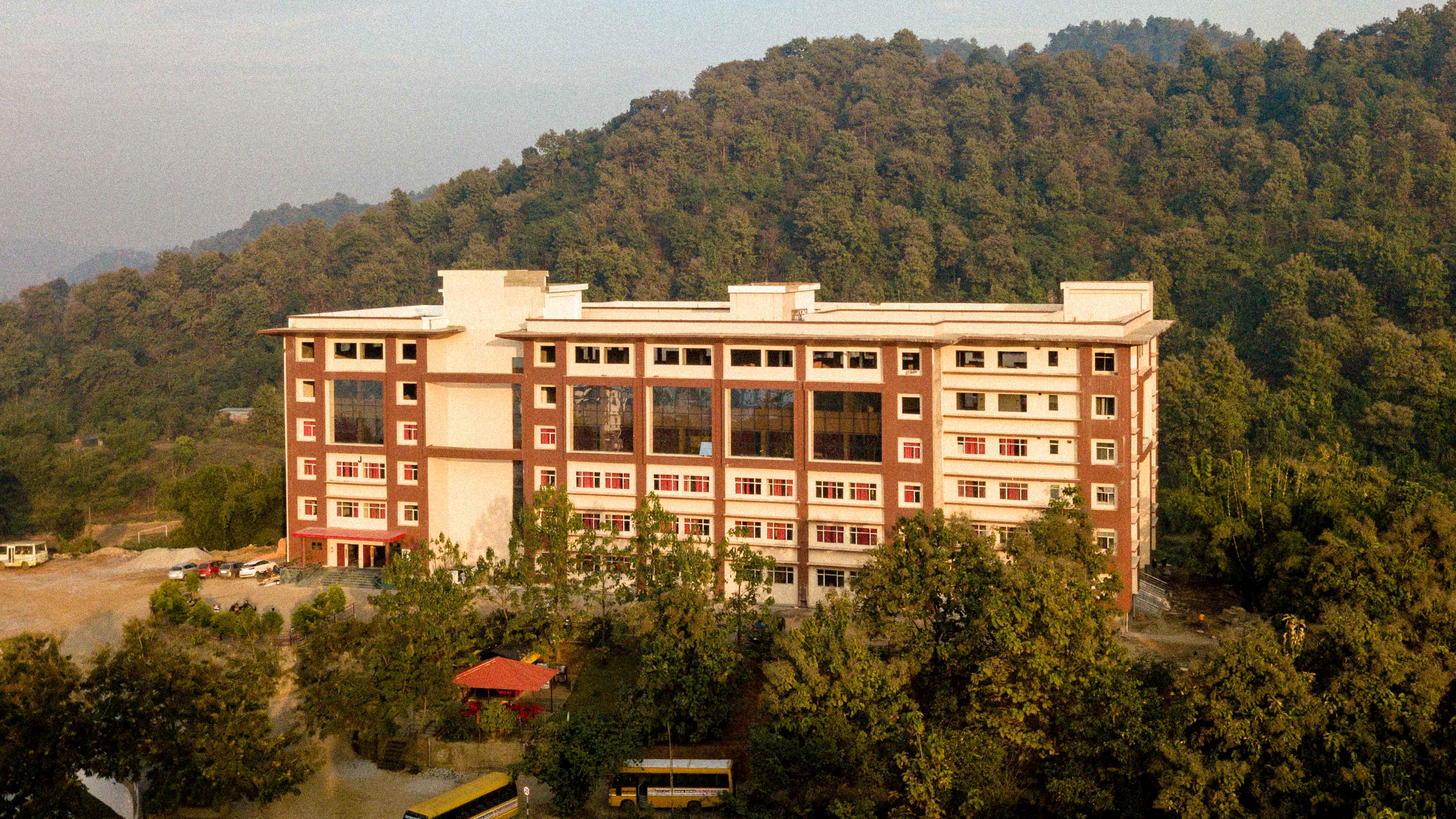 assam down town university department of sciences